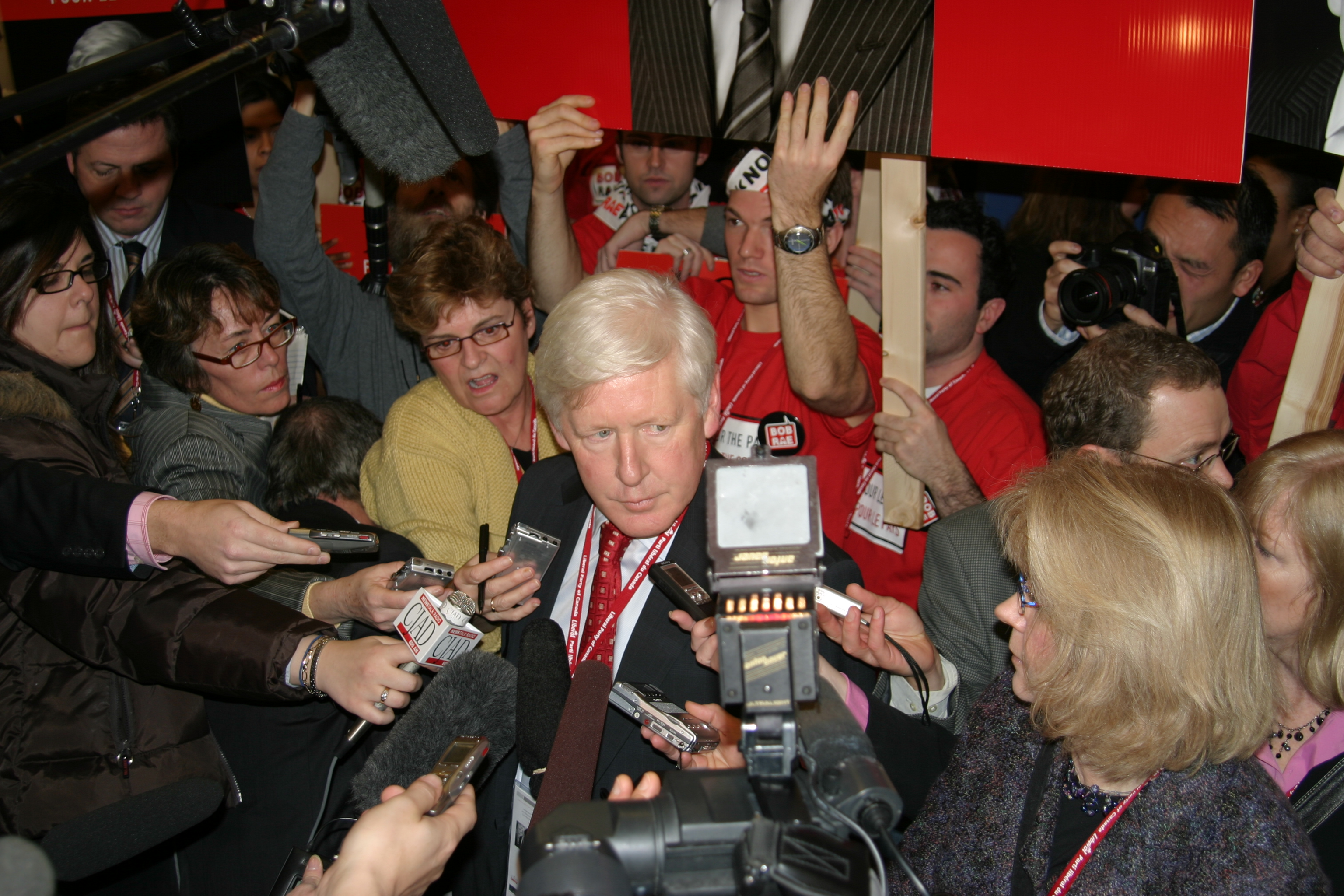 Bob Rae addressing the press on Day 1 of the Liberal Leadership Convention. Photograph by: Andrei Sedoff Liberal Leadership Convention 2006 Location: Palais des congrès de Montréal